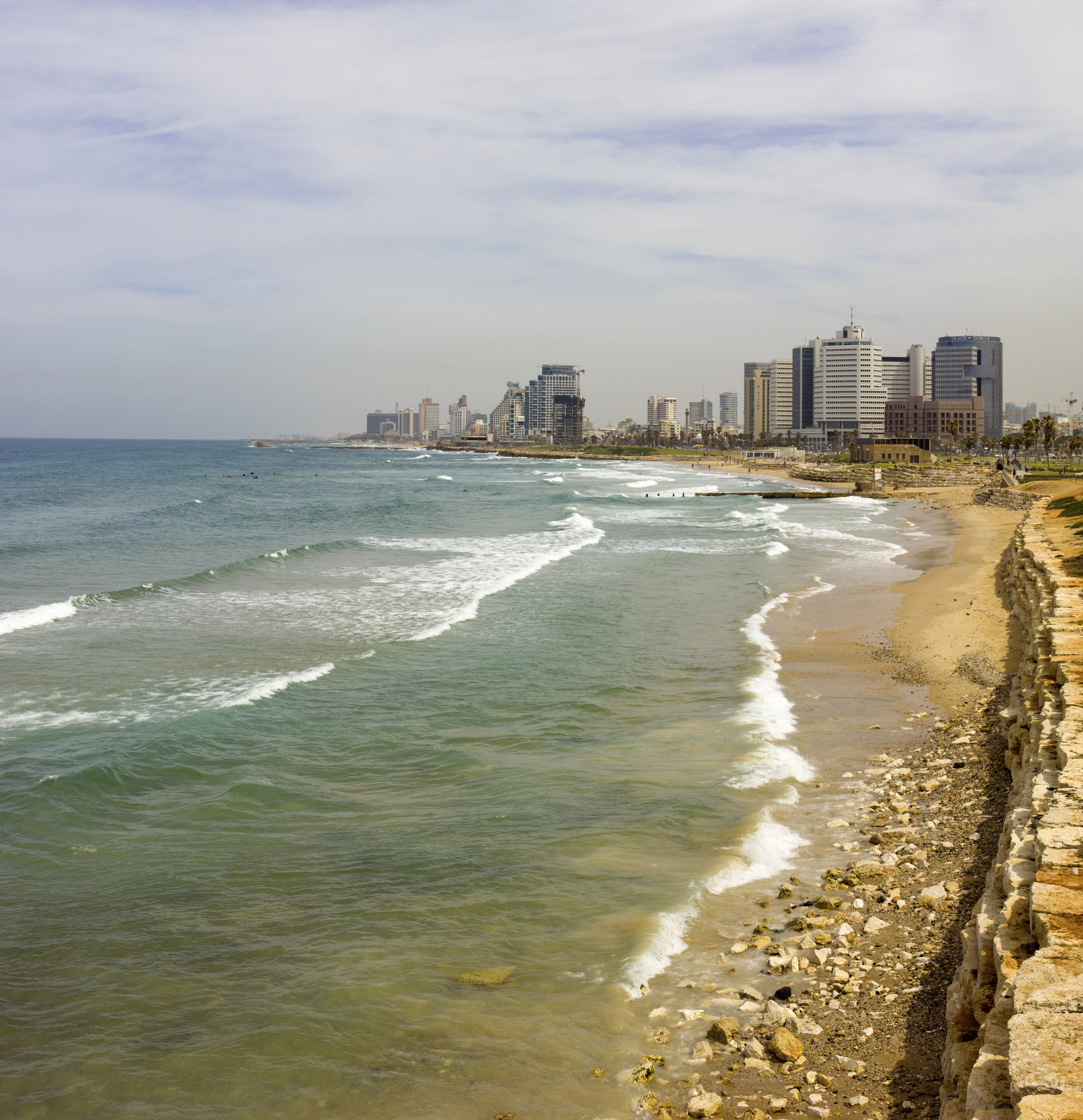 View of the Tel Aviv beachfront from Jaffa.